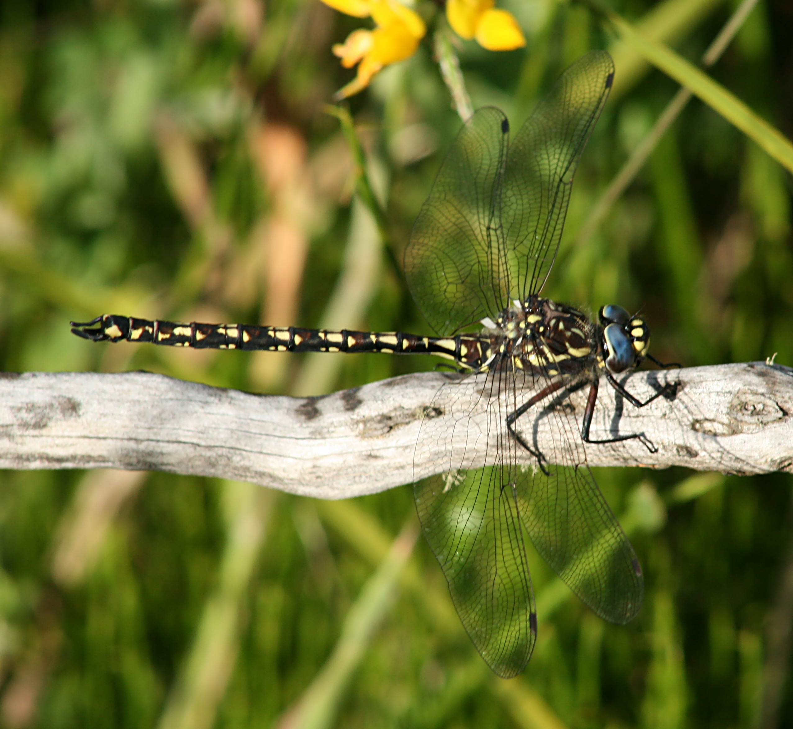 Side view of a male alpine darner (Austroaeschna flavomaculata) along the Riverside Walk in Thredbo. (Identification based on pictures and descriptions at [1]).